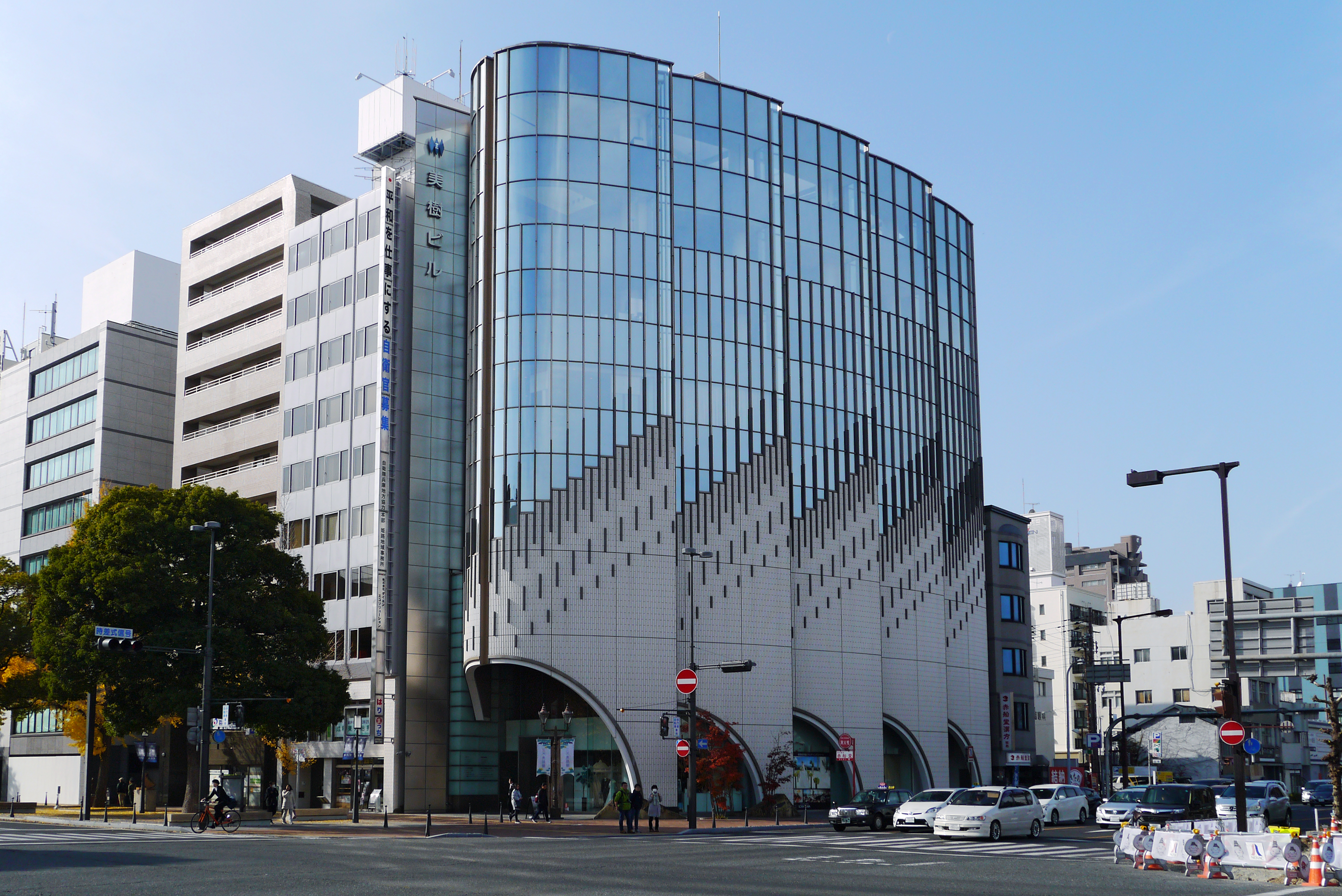 Miki Art Museum, Himeji, Hyogo prefecture, Japan Panasonic Lumix DMC-GF5